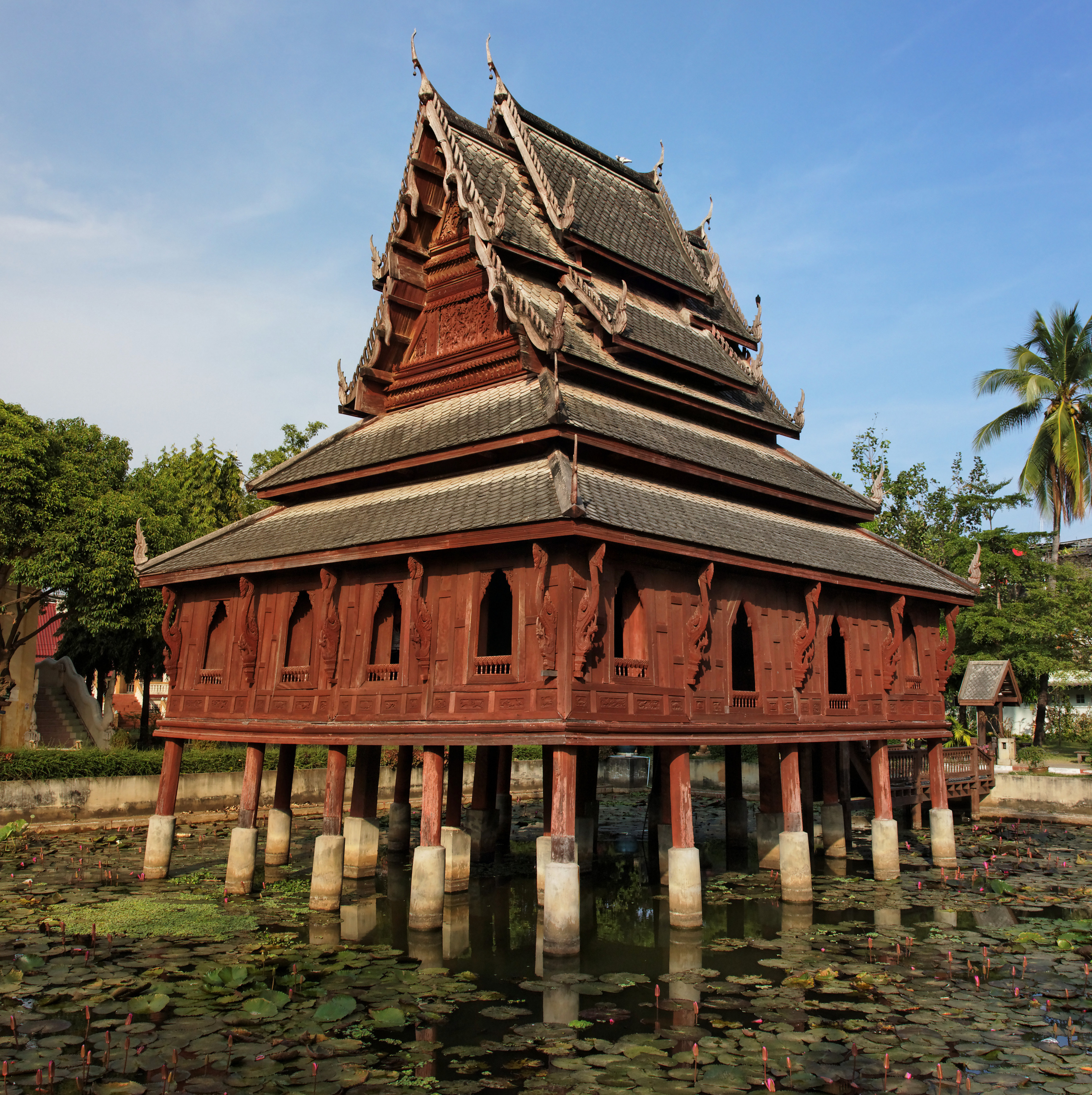 Wat Thung Si Muang is a buddhist temple in the Province of Ubon Ratchathani